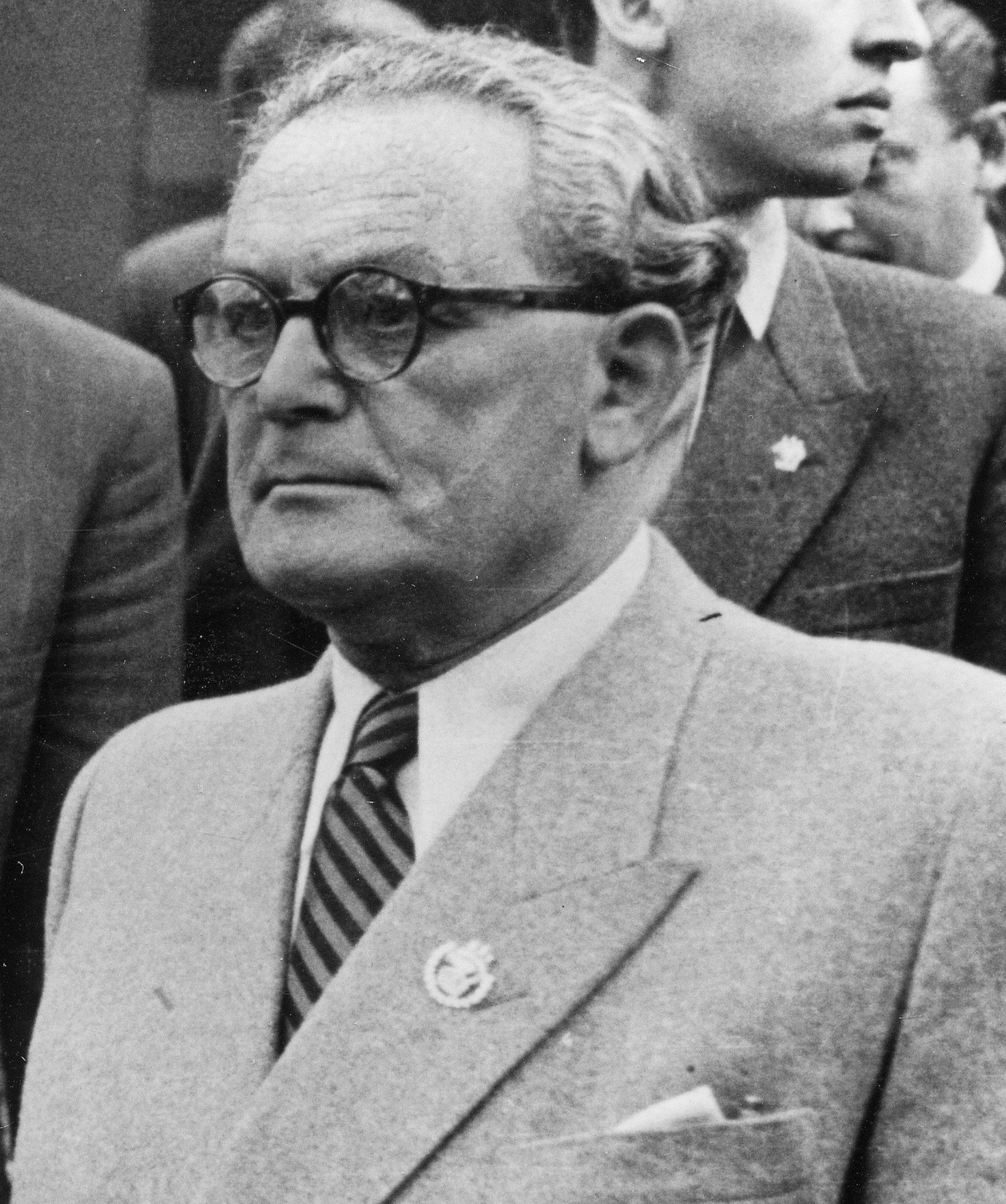 Árpád Szakasits, Head of State of Hungary in 1949